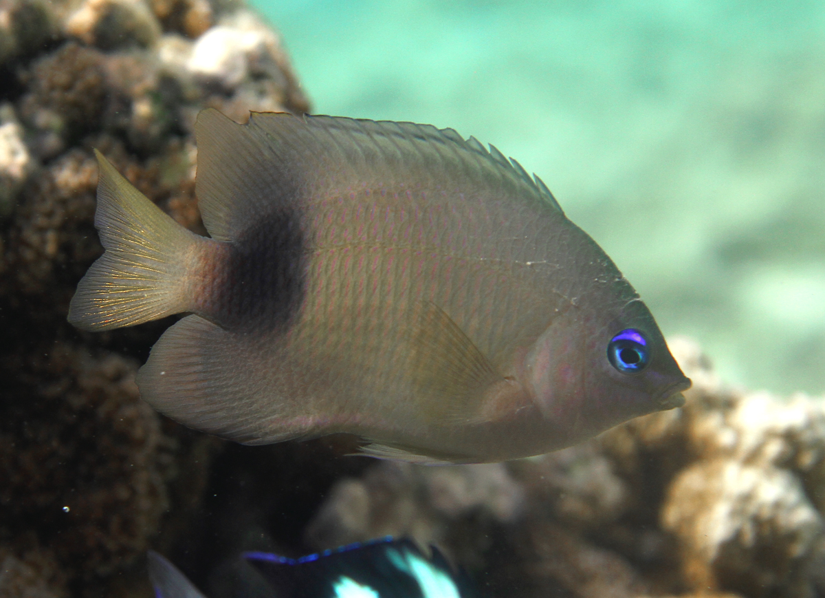 Johnston's damselfish (Plectroglyphidodon johnstonianus) in Réunion island.